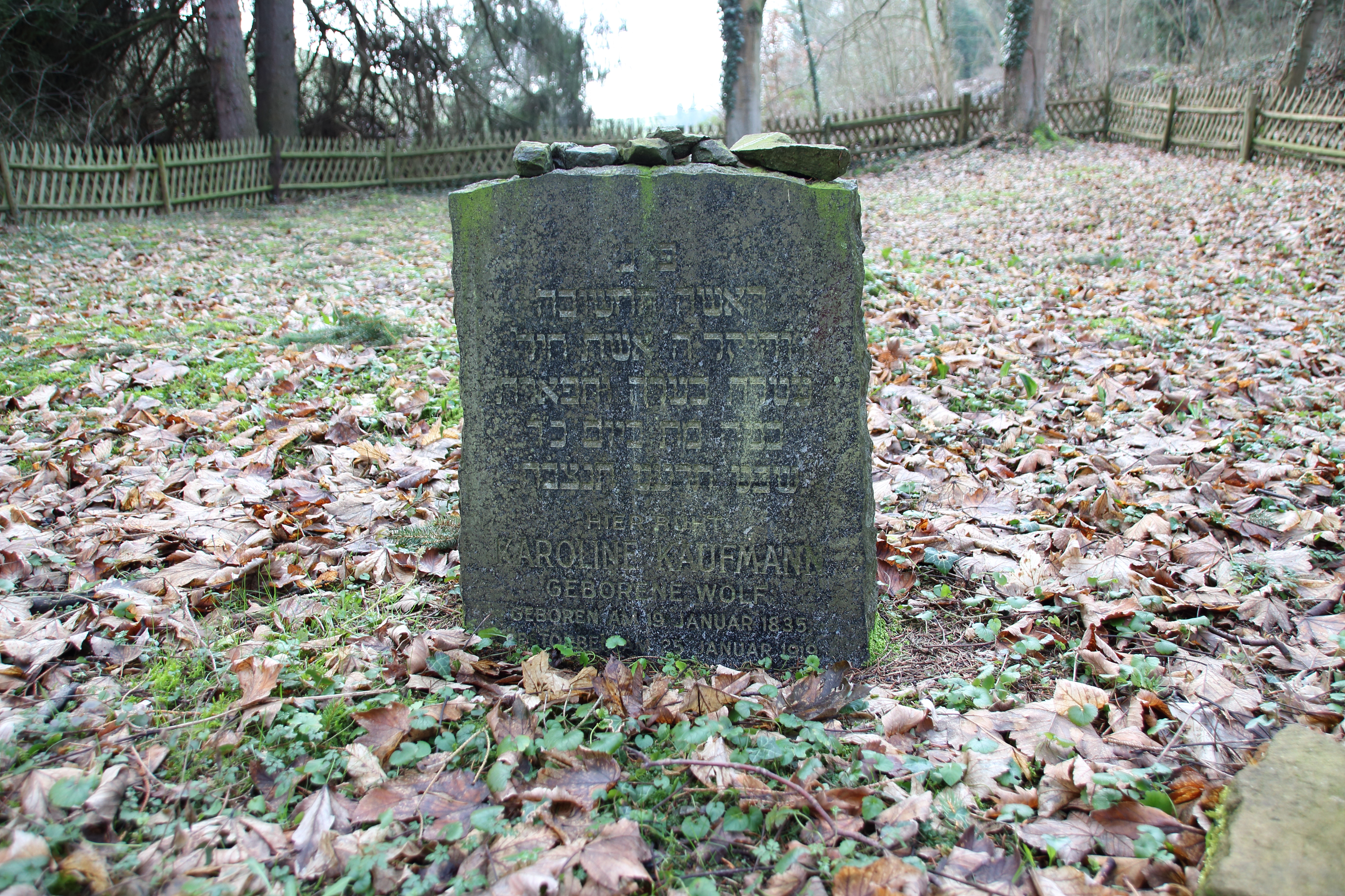 Jewish Cemetery Osterspai, Rhein-Lahn-District, Rhineland-Palatinate, Germany.